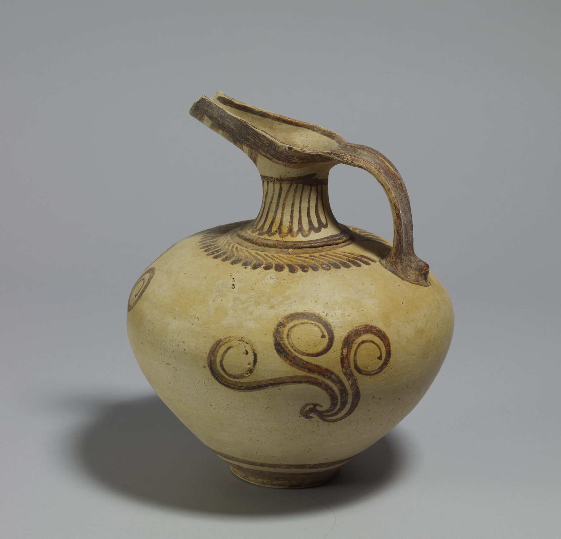 This full-bodied jug has a long beak-like spout derived from Minoan models. On its belly are simple designs based on the sea animal called ‘nautilus’ (not the pearly nautilus but the paper nautilus, also called argonaut in modern zoology). The image is dominated by the stylized tentacles spiraling from the shell. From Mycenae.